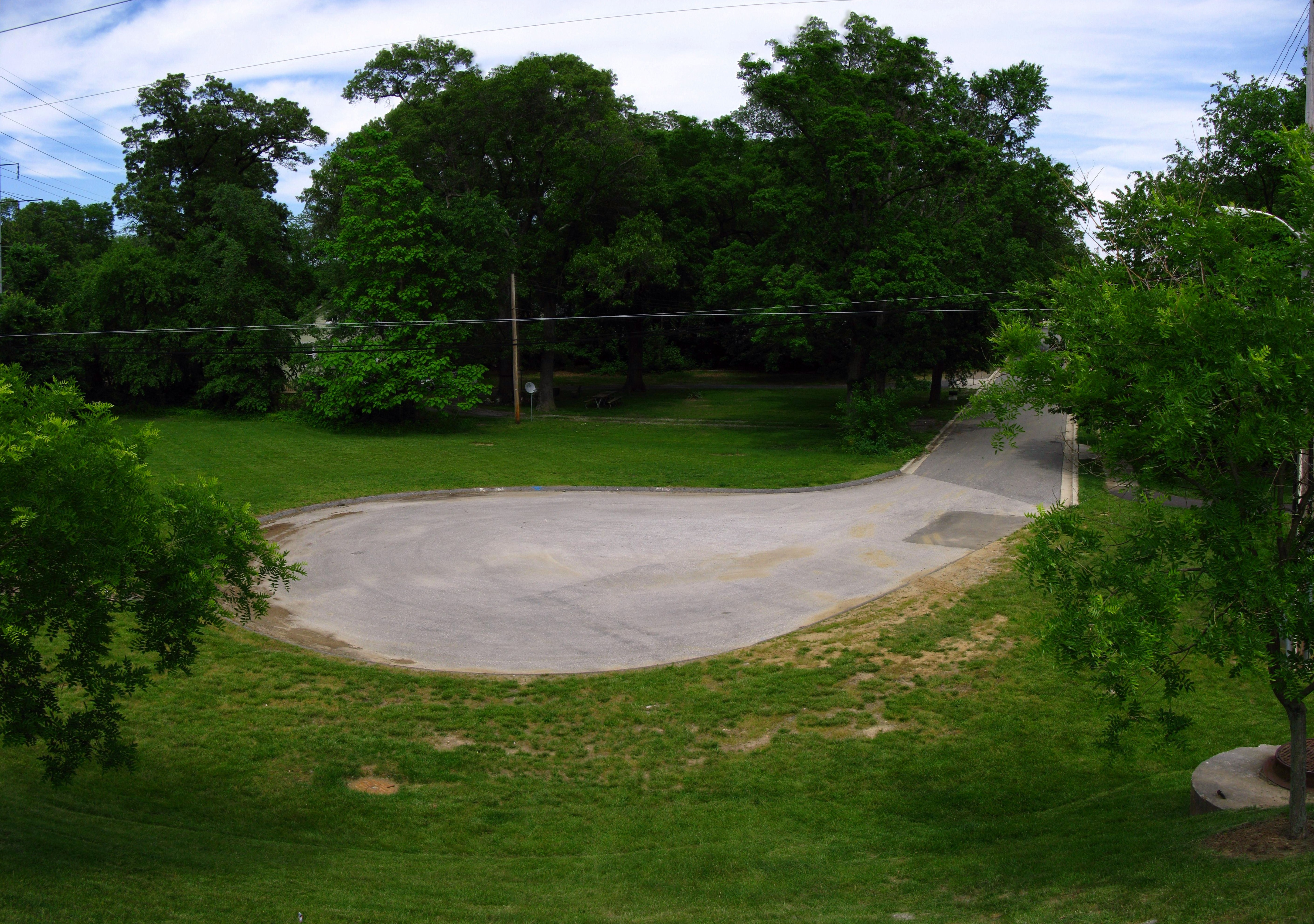 A cul-de-sac terminus of 10th Street, Bowie, Maryland. This panoramic image was created with Autostitch (stitched images may differ from reality).